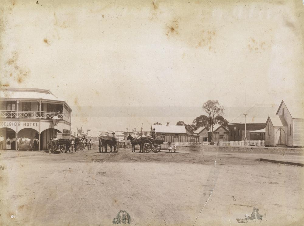 In front of the Excelsior Hotel, Charters Towers, ca. 1888 Busy hotel with horses and carriages photographed outside the building. The church and other wooden buildings can be seen on the right hand side of the photograph.